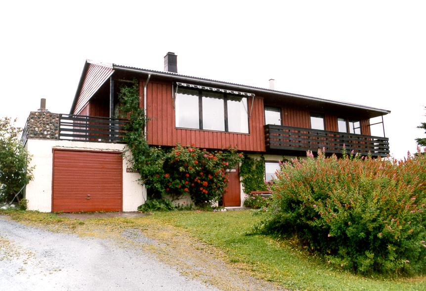 Tautra Mariakloster, Norway Transitional building with chapel and guest house